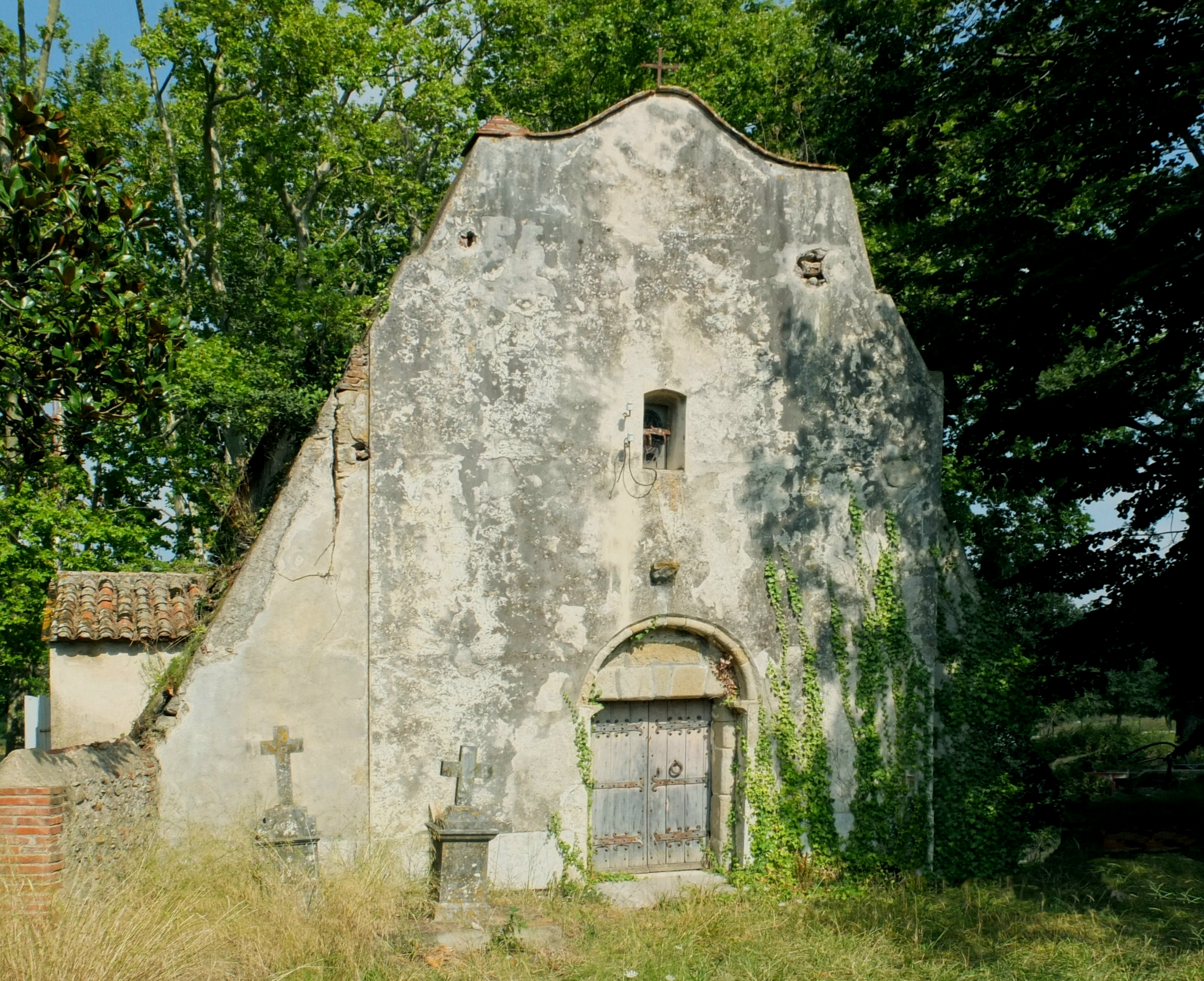 Romanesque Chapel Saint-Pierre de Vilaclara, Palau-del-Vidre, France (view from W).